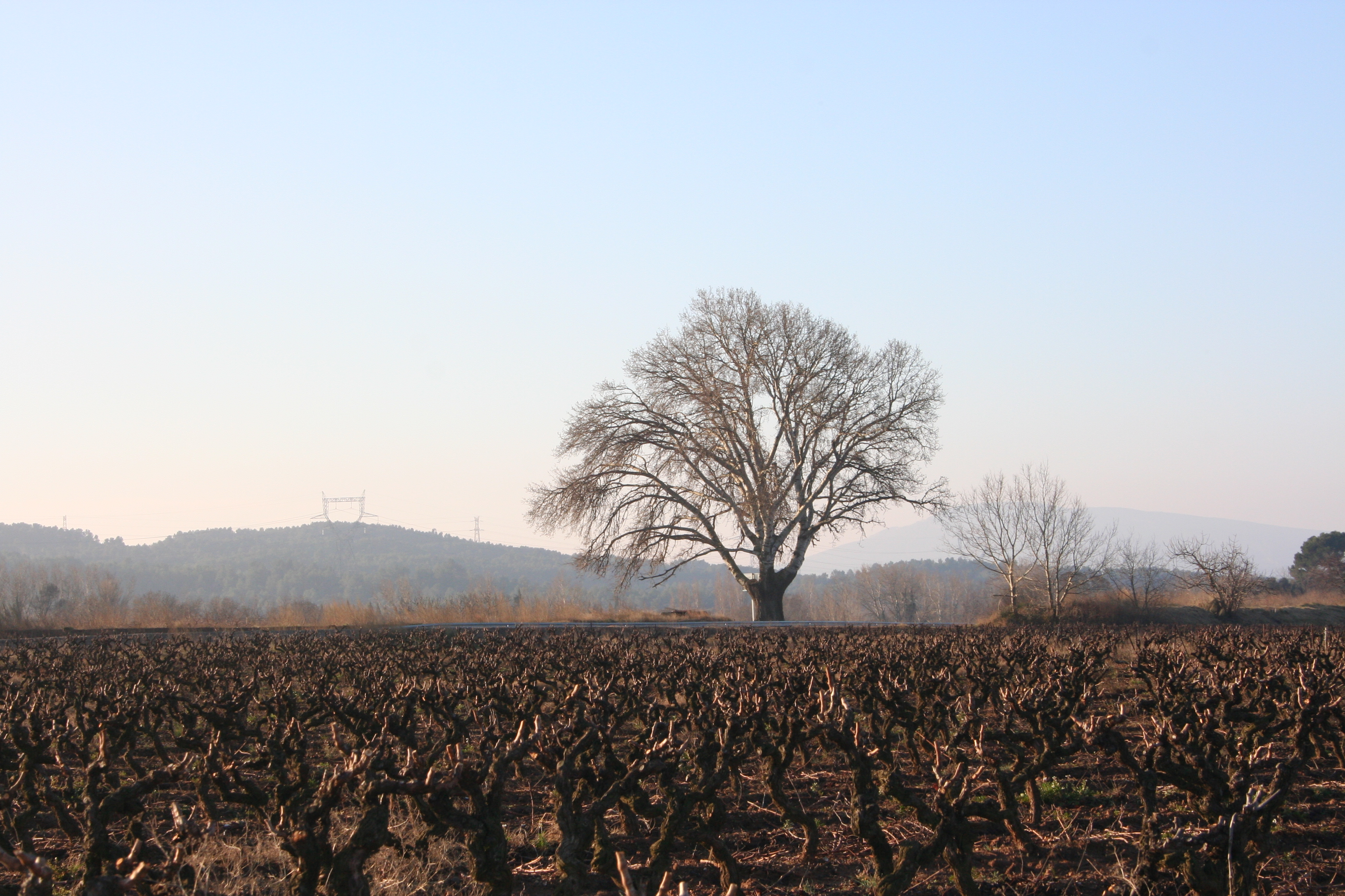 Unstaked goblet trained vines in the French wine region of Minervois in the Langeudoc